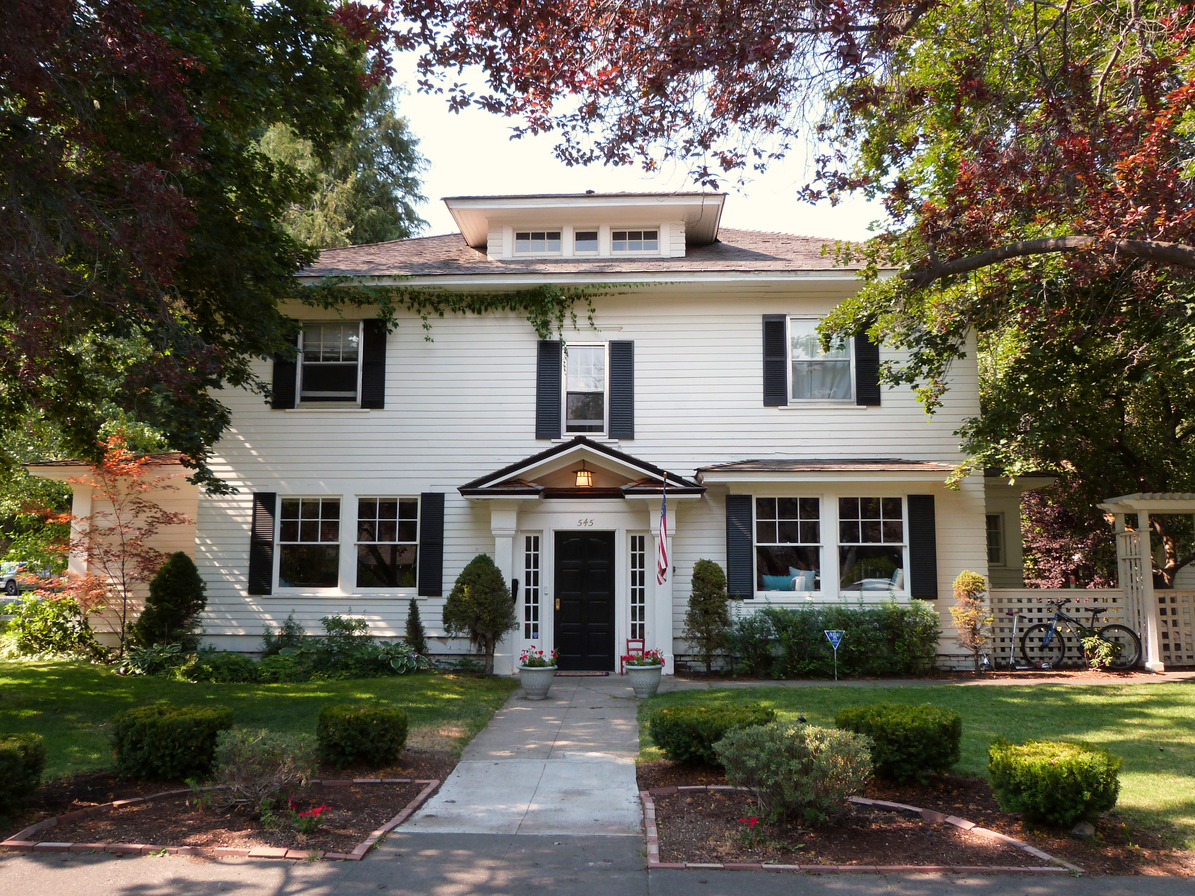 The historic Robert D. Moore House (built 1921), located at 545 Northwest Congress Street in Bend, Oregon, United States, is listed on the US National Register of Historic Places. It is additionally identified as a contributing resource in the National Register-listed Drake Park Neighborhood Historic District.